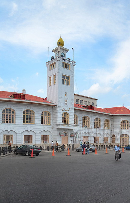 Panorama image of the city of Rasht